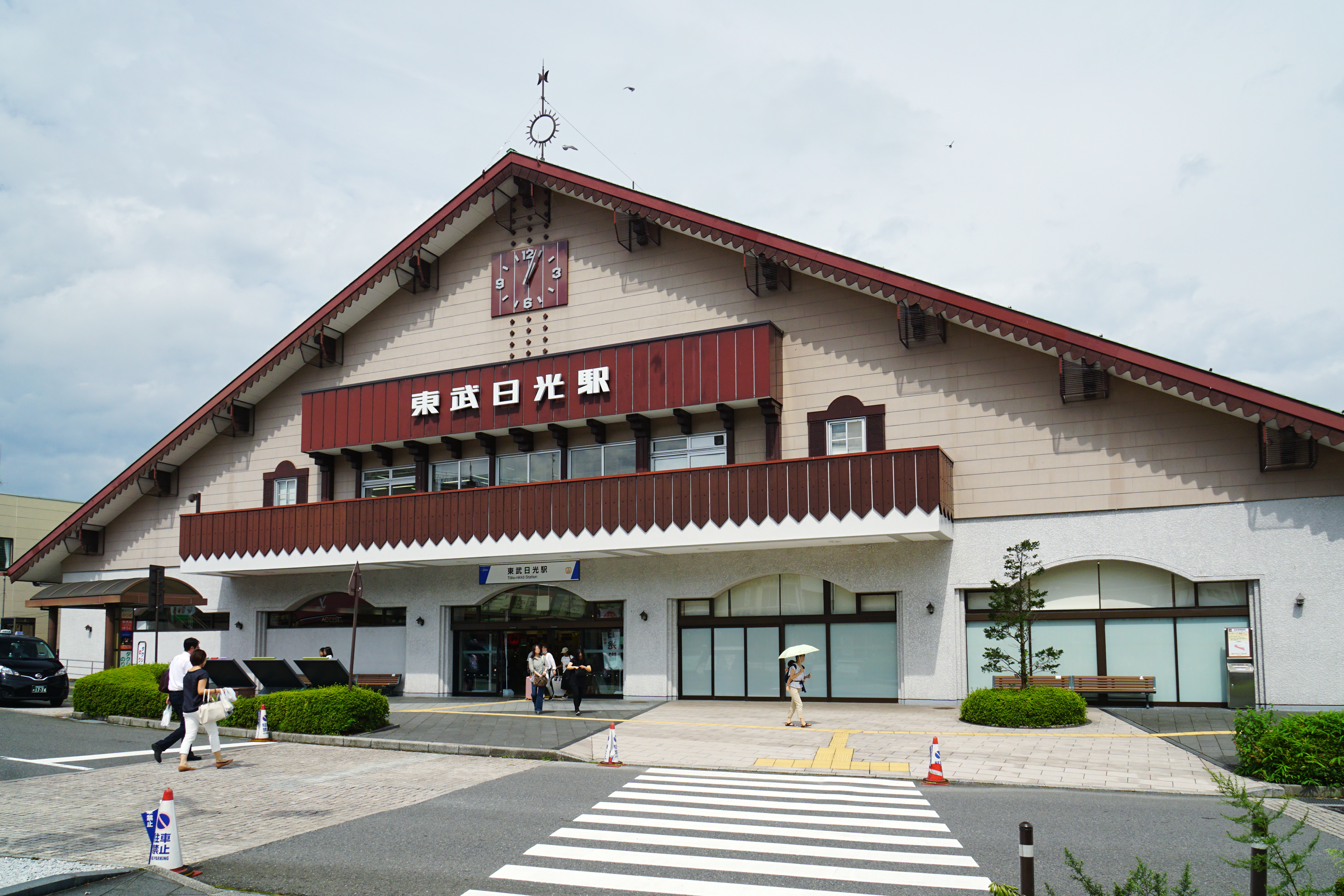 Tōbu Nikkō Station in Nikko, Tochigi prefecture, Japan